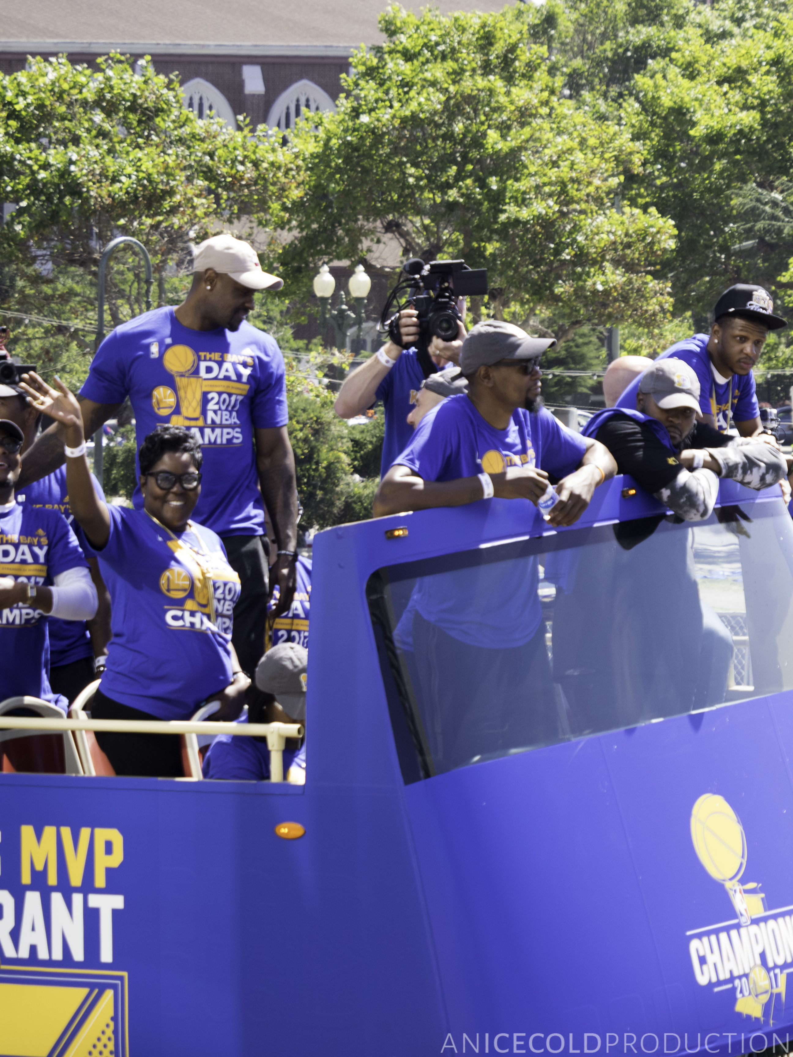 Kevin Durant during the Warriors Championship Parade